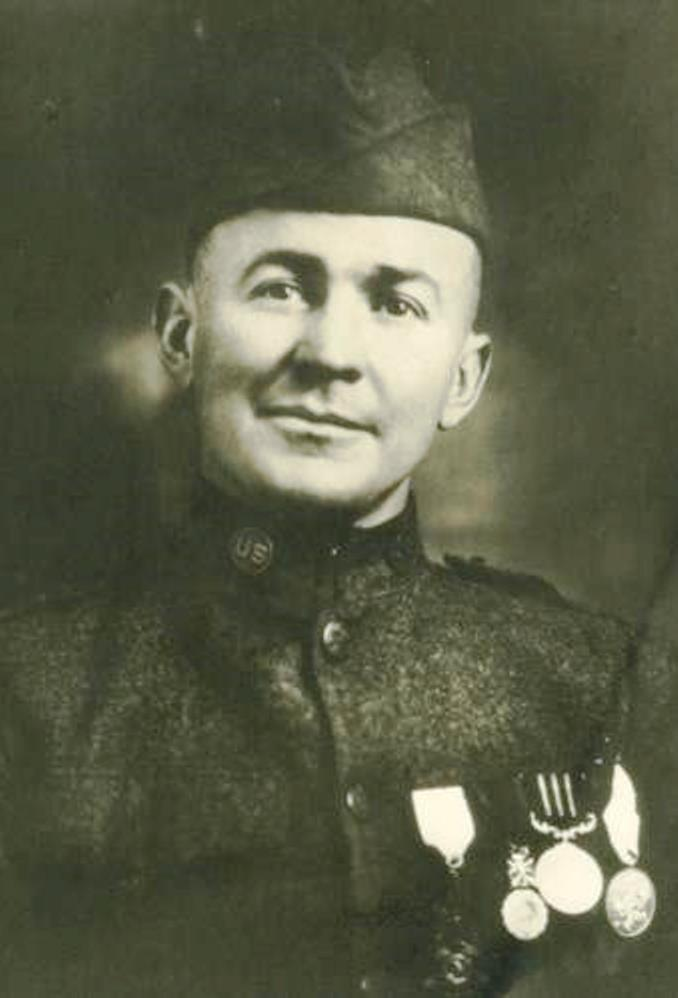 WWI Medal of Honor recipient Edward R. Talley. He wears the Medal of Honor, the French Médaille militaire, the British Military Medal and the Montenegrin Medal for Military Bravery.